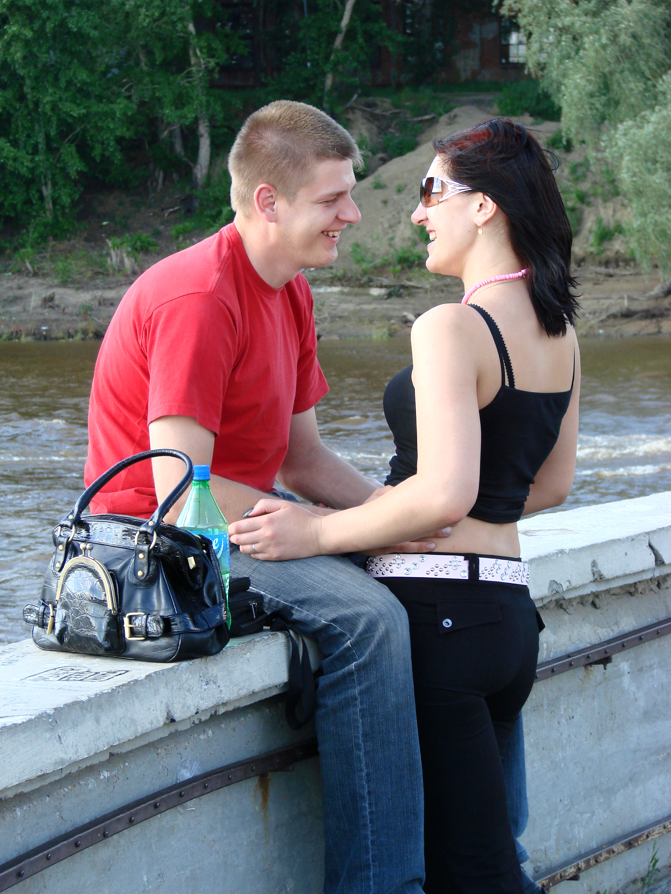 Couple by the riverfront in Omsk, Russia. May 2008.